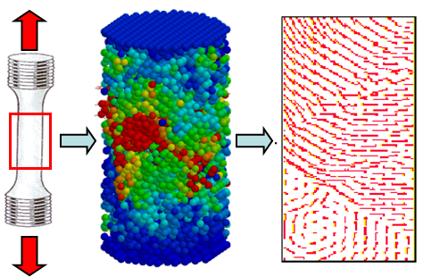 MCA elements